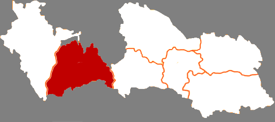 Location of Zhuanglang county in Pingliang city, China